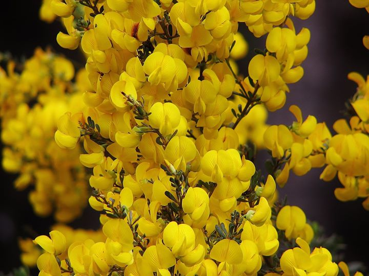 Cyclopia falcata (Harv.) Kies (=Cyclopia subternata Vogel) - honeybush tea flowering in a vlei area in the Tsitsikamma